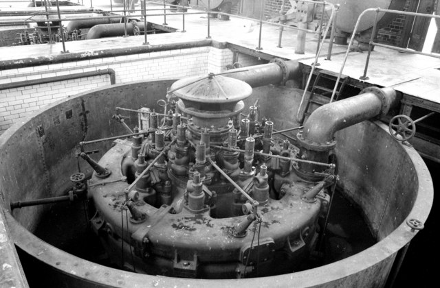 Humphrey pump, King George V Pumping Station The only other examples are at Cobdogla in Australia and at least one is workable. These are large producer gas driven engines with the water acting as a piston. Amazingly enough these beasts actually worked.